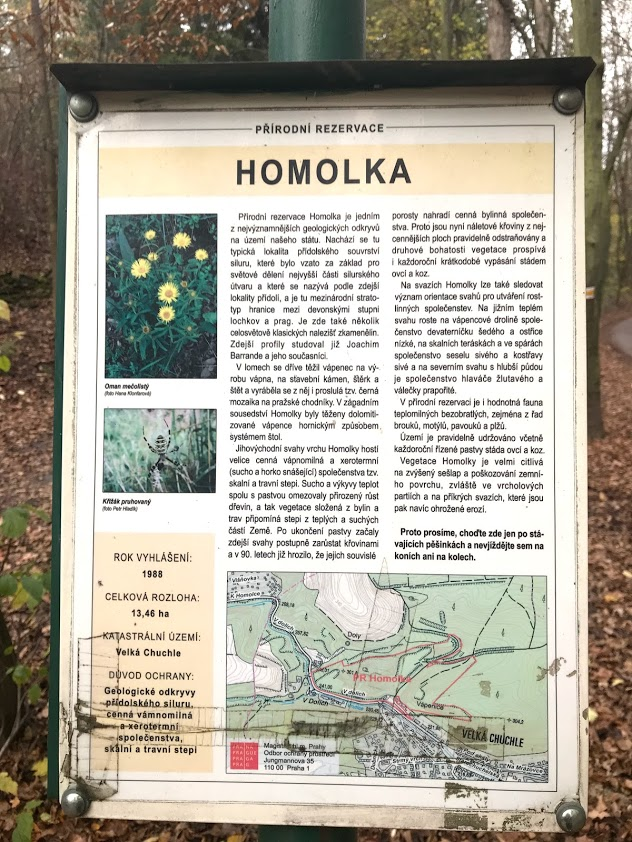 Naučná tabule doplňující stezku.